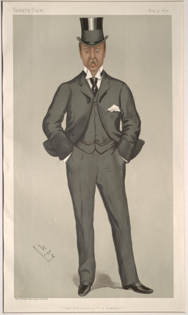 Statesmen No.651: Caricature of Mr VCW Cavendish MP. Caption reads: "heir presumptive to a Dukedom"